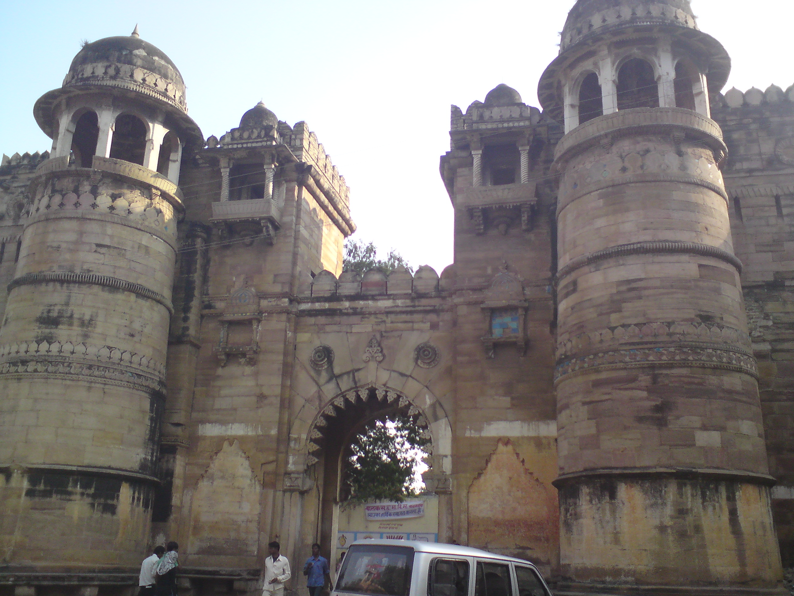 One of the Seven entrance gates to Gwalior Fort